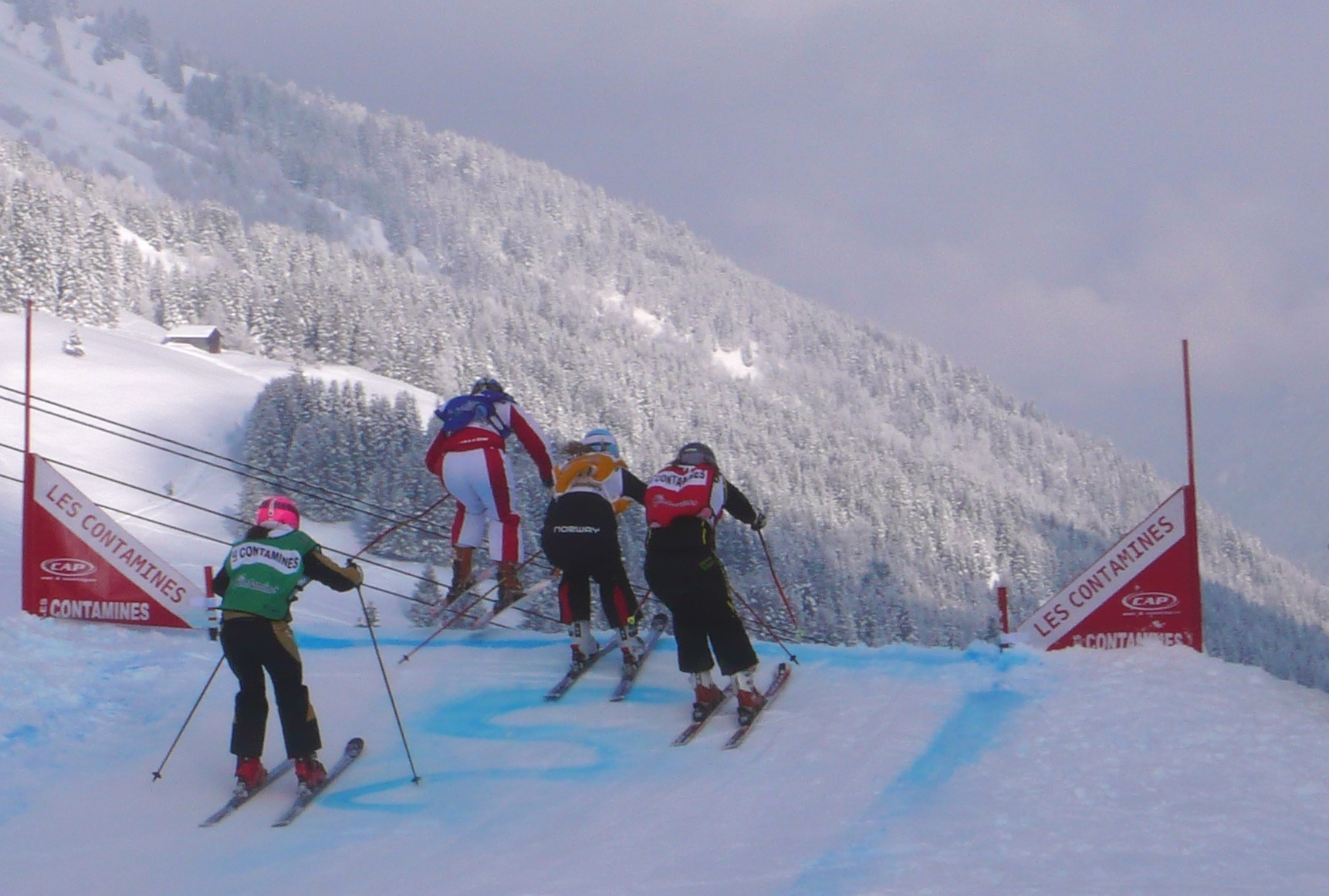 Ski Cross World Cup at Les Contamines-Montjoie, small final: Sophie Fjellvang-Soelling, Gro Kvinlog Genlid, Marion Josserand, Katrin Mueller.